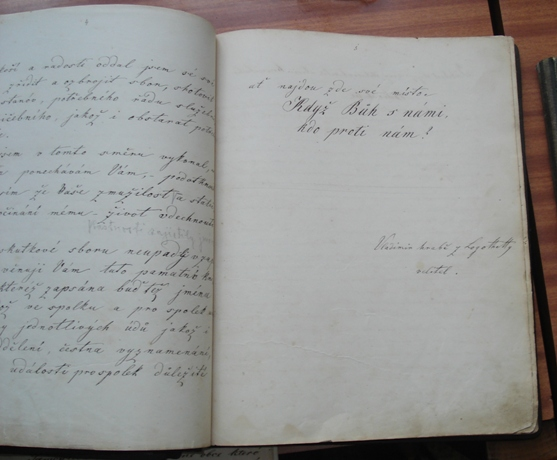 Registration of Count Vladimir Logothetti in the first book of the Bilovice Fire Brigade 1869